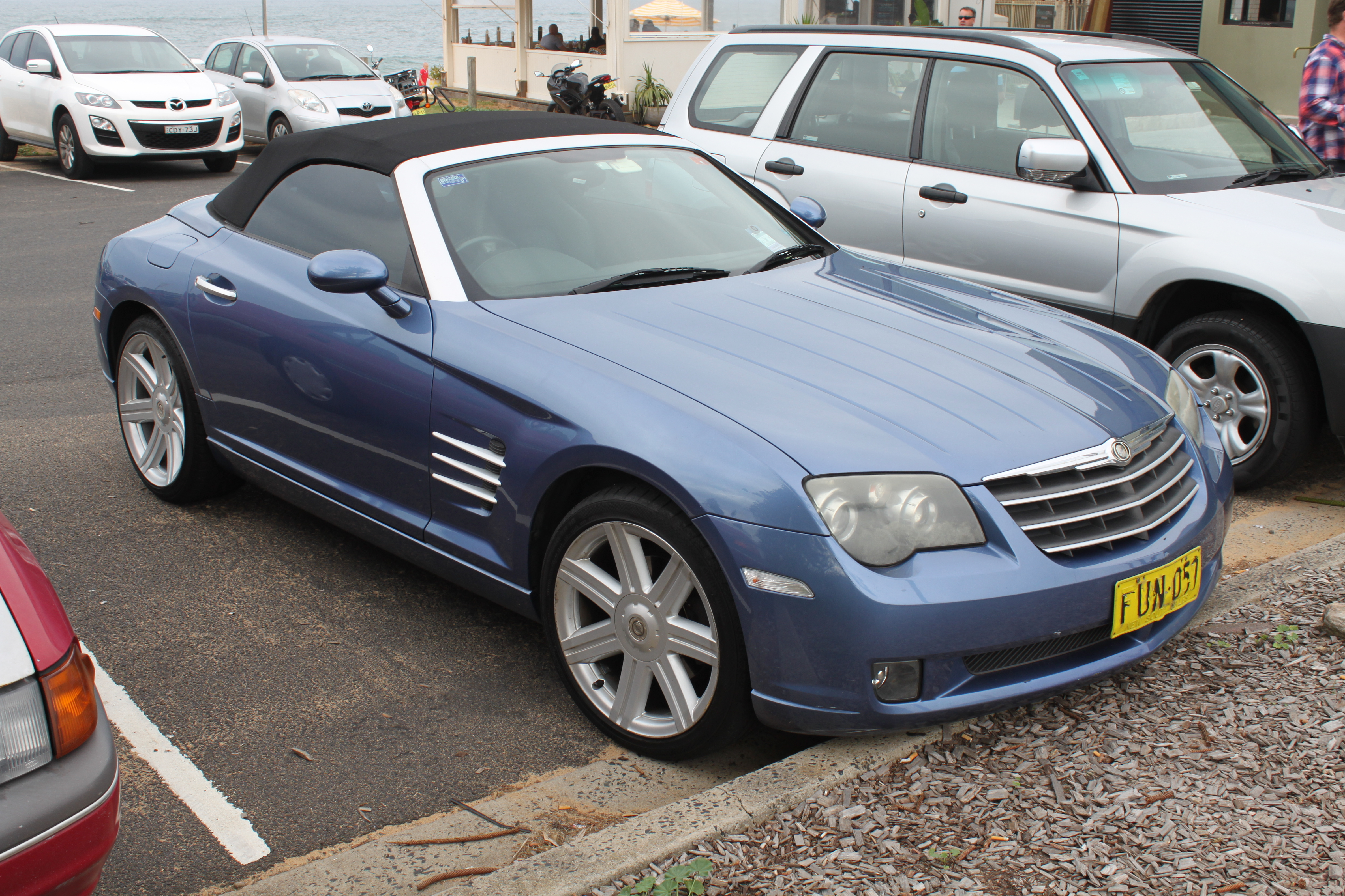 Chrysler Crossfire Convertible